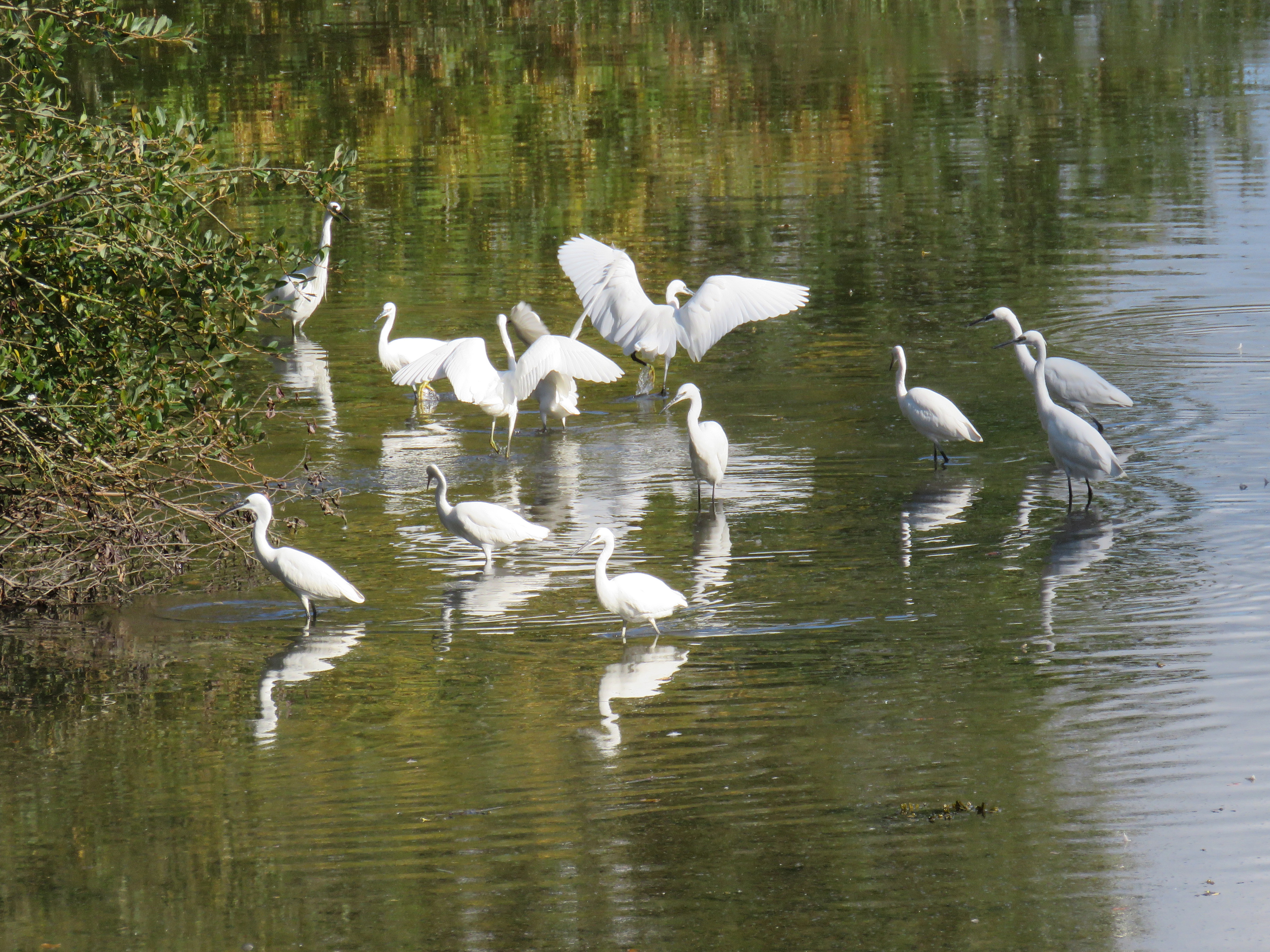 12 great white egrets, the Spinnies nature reserve, Gwynedd, Wales